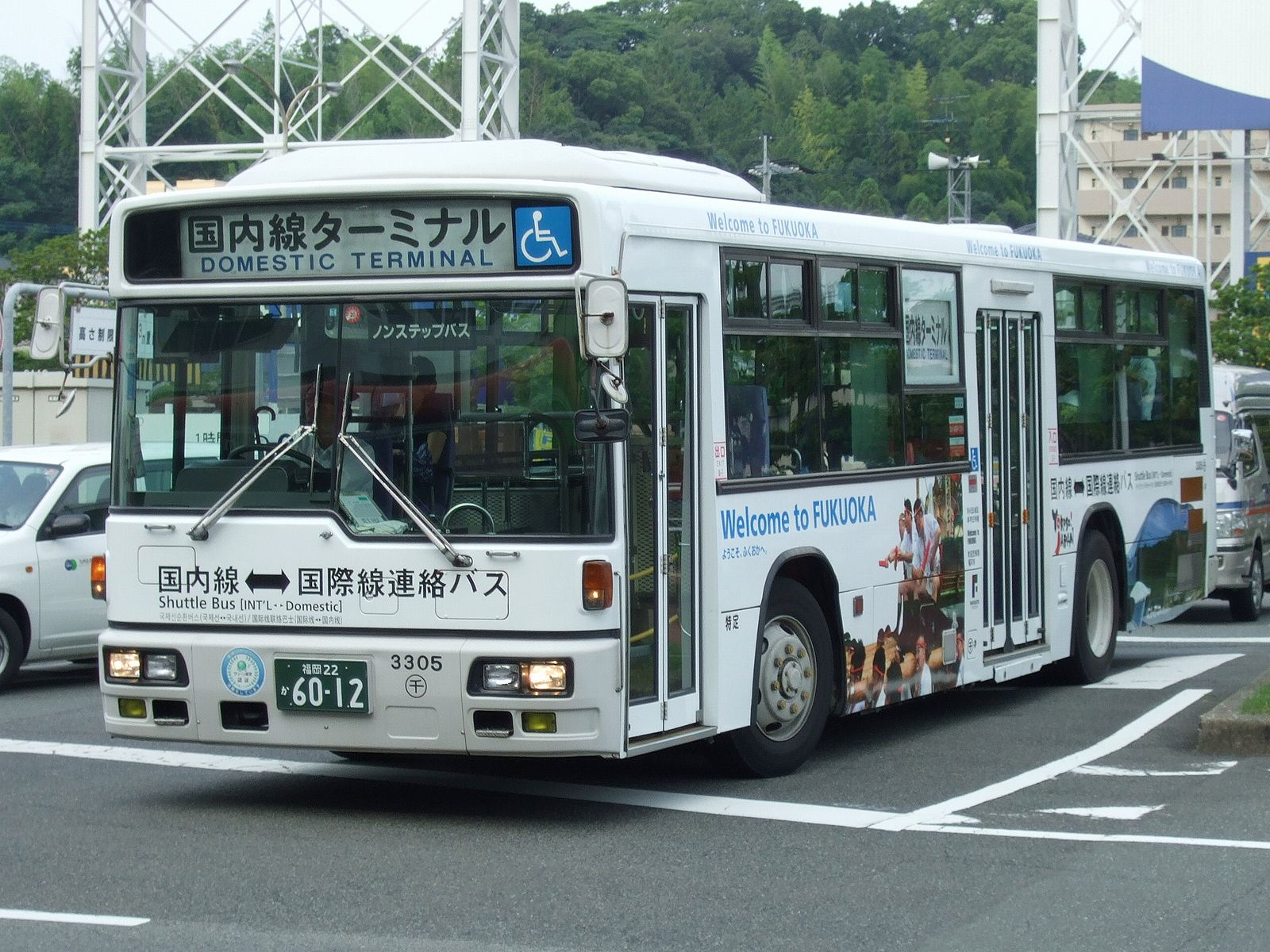 Company:Nishi Nippon Railroad Use:limited transit Belongs to:Chiyo Depot Car license:福岡22 か 6012 Code:3305 Chassis manufacturer:Mitsubishi Motors Coachbuilder:Nishinippon Shatai Kogyo Location:at Fukuoka Airport, Hakata-ku, Fukuoka City, Fukuoka, Japan